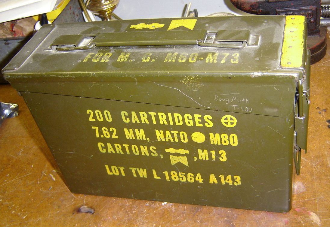 ammunition box